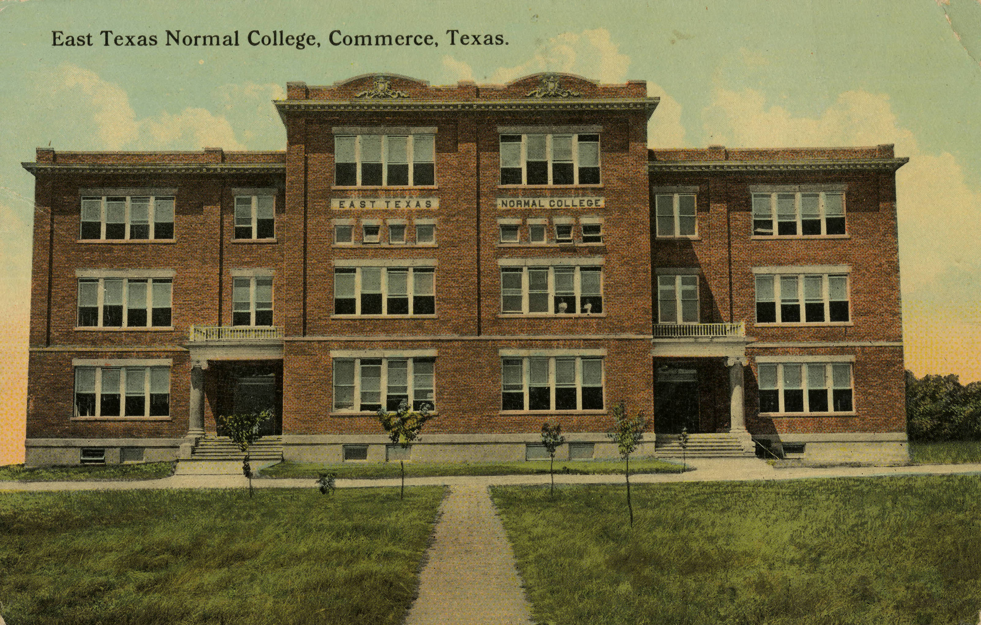 Postcard featuring a photograph of the East Texas Normal College Old Main building.